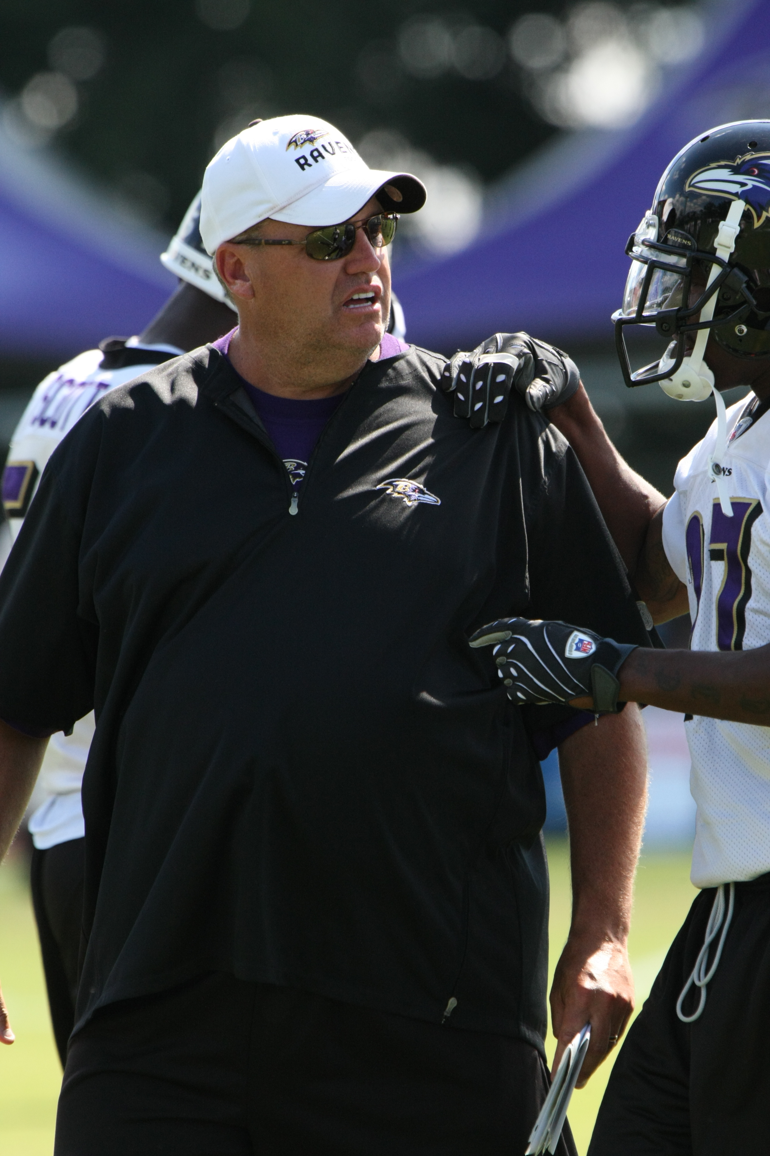 An image of Rex Ryan during his tenure as Baltimore Ravens coach.